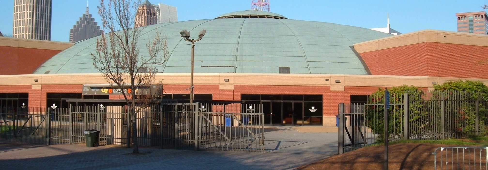 Alexander Memorial Coliseum viewed from the SouthWest side (Atlanta, GA, USA)